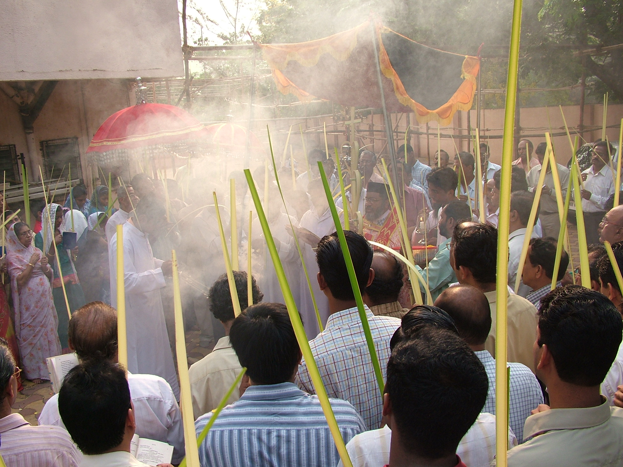 Self-made - The congregation in an Oriental Orthodox church in India collects palm fronds for the Palm Sunday procession (the men of the congregation on the left in the photo; the women of the congregation are collecting their fronds on the right.